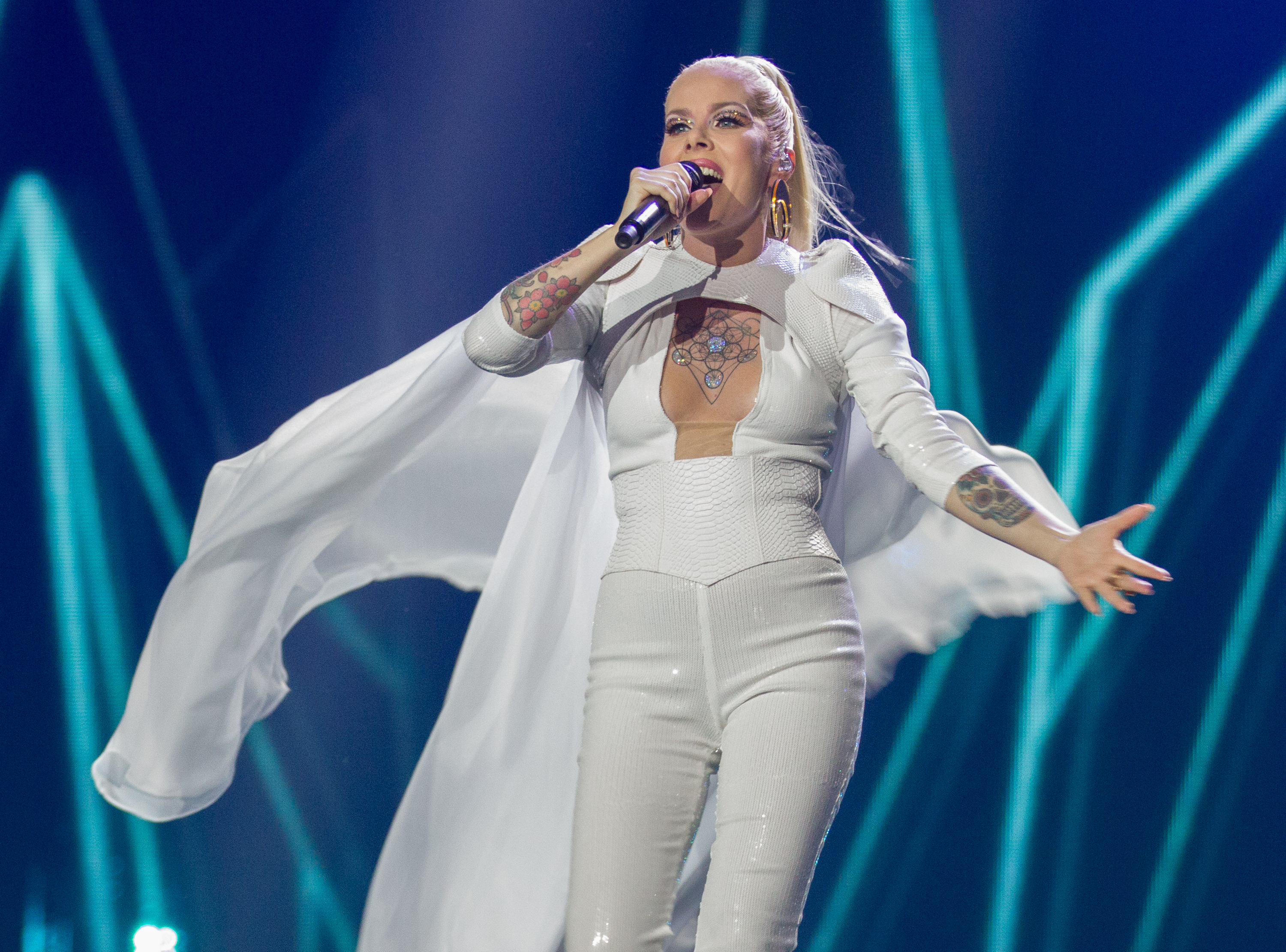 Svala representing Iceland with the song "Paper" during a rehearsal before the first semi final of the Eurovision Song Contest 2017 in Kiev.